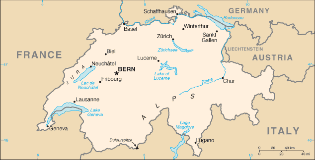 Switzerland